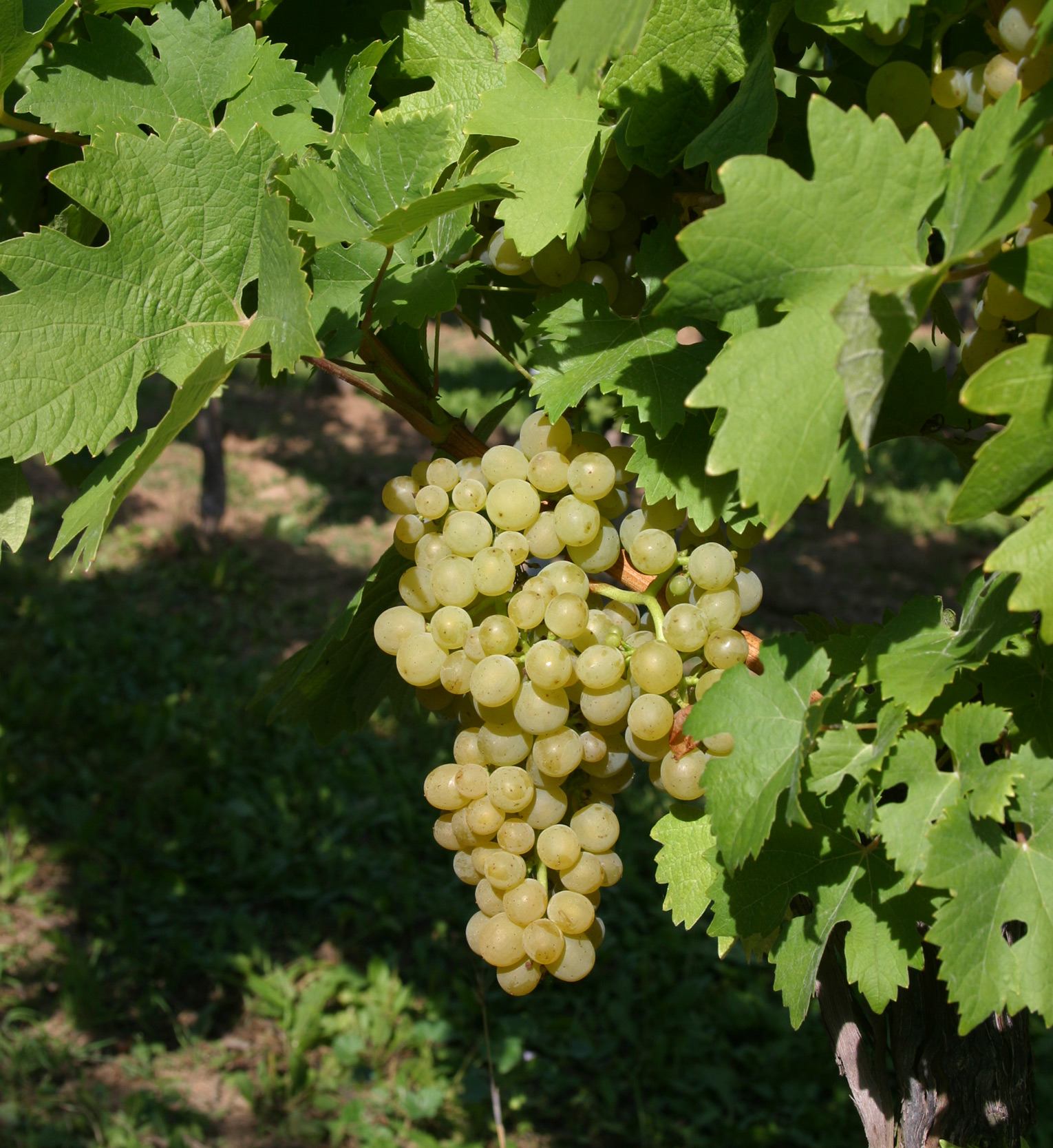 Leafs and grapes of the grape variety Ortega.